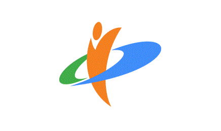 Flag of Nakadomari Aomori